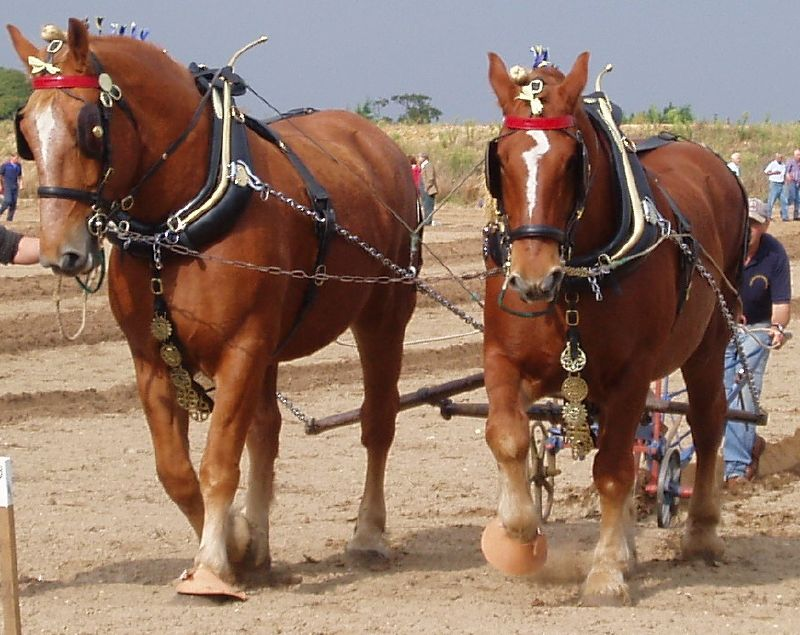 A plow team of Suffolk Punch horses.